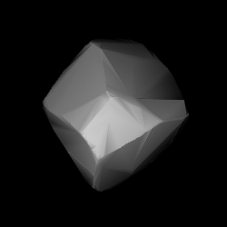 3D convex shape model of 1283 Komsomolia, computed using light curve inversion techniques. J. Hanuš, J. Ďurech, M. Brož, B. D. Warner (June 2011). "A study of asteroid pole-latitude distribution based on an extended set of shape models derived by the lightcurve inversion method". Astronomy and Astrophysics 530: A134. ISSN 0004-6361. arXiv